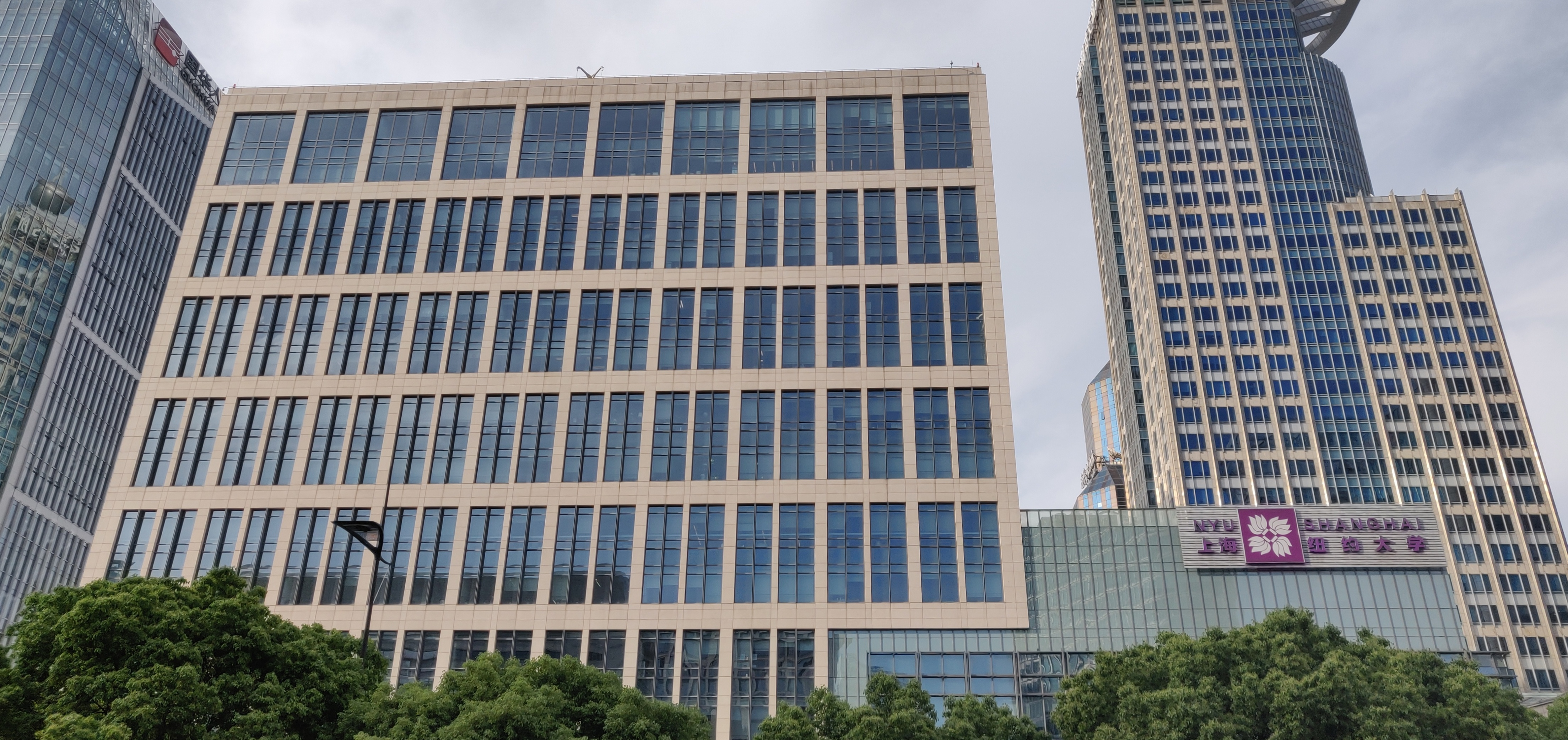 NYU Shanghai Lujiazui Building